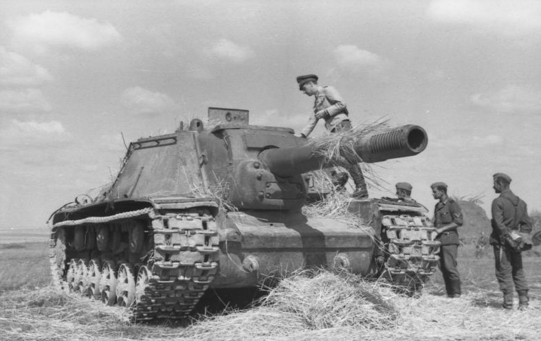 Information added by Wikimedia users.